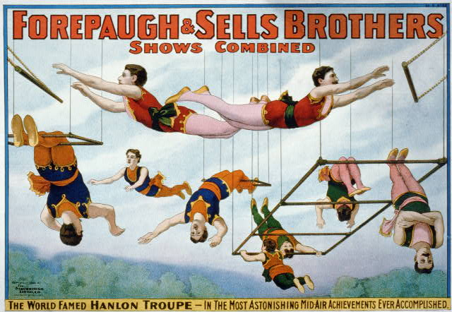 Circus poster, 1899. "Forepaugh & Sells Brothers Shows Combined. The world famed Hanlon Troupe in the most astonishing mid-air achievements ever accomplished."